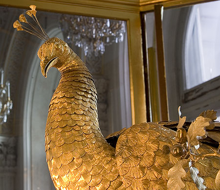 The Peacock Clock in the Pavilion Hall of the Hermitage Museum, designed by James Cox in 1772.